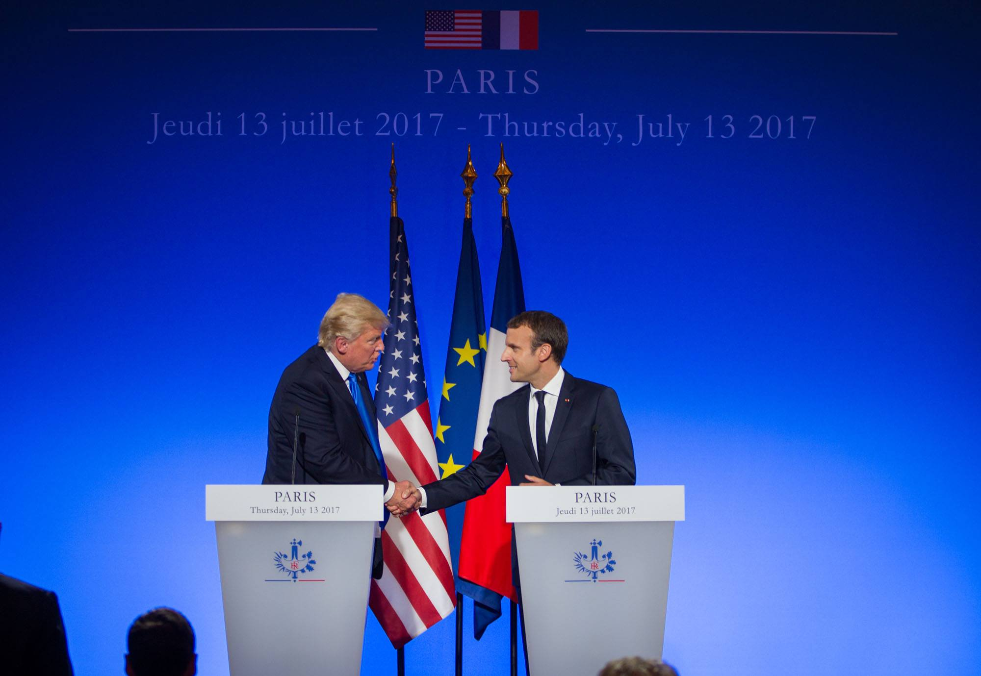 President Donald J. Trump with President Emmanuel Macron for joint press conference at Élysée – Présidence de la République française in Paris, France #POTUSinFrance